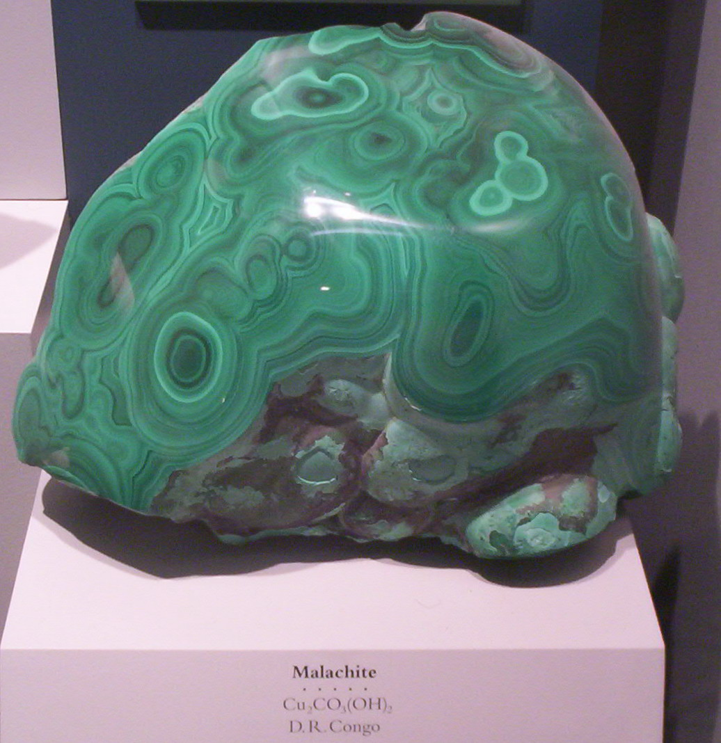 a large hunk of Malachite at the National Museum of Natural History.